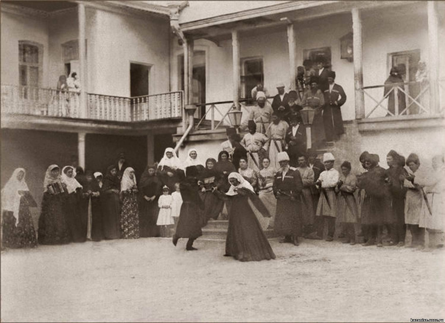 Daghestan. Dance the "Lezginka" Greater Kazanishchi.